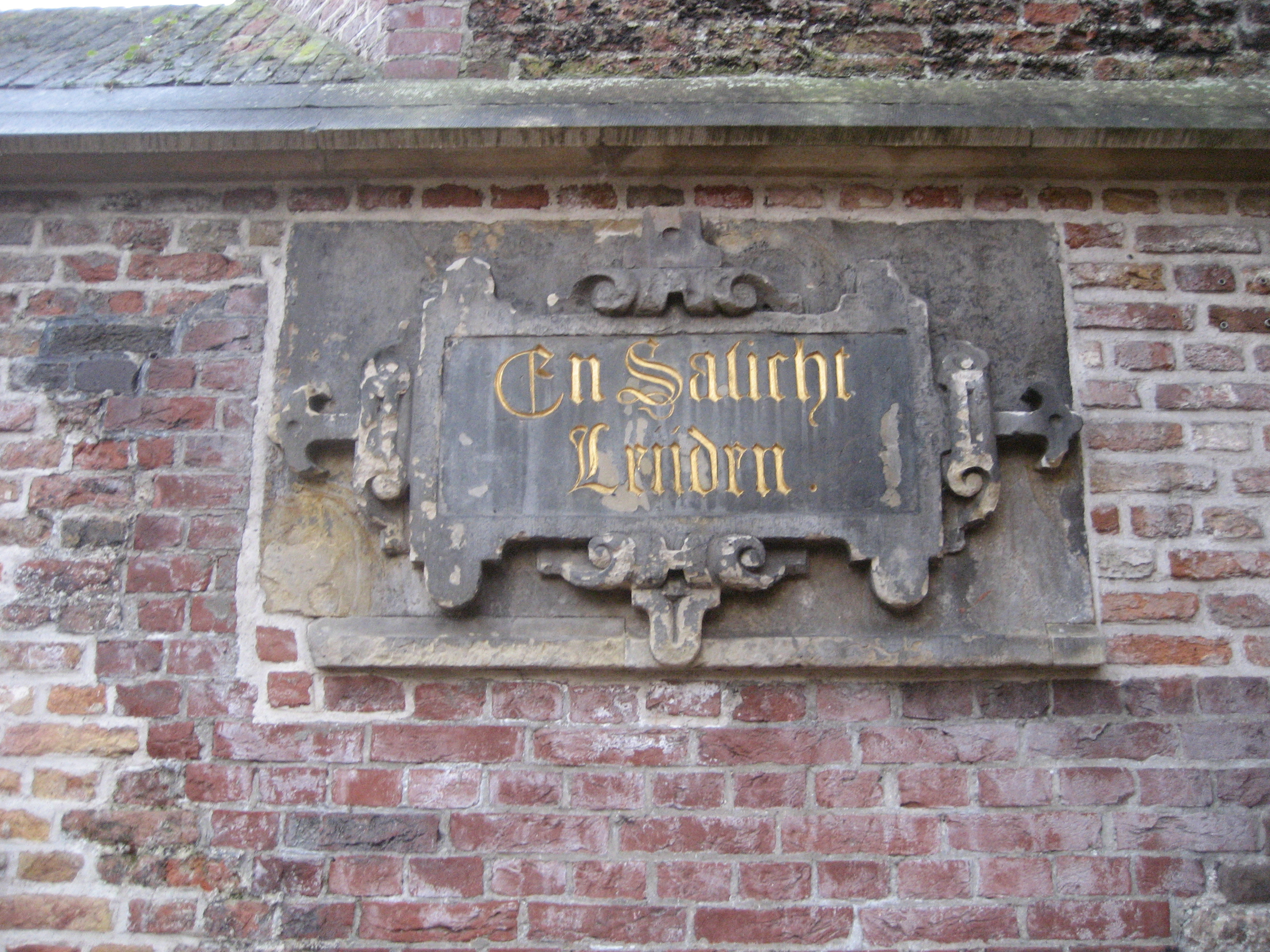 Plaque "En Salicht Leiden" ("and bless Leiden"), Vrouwenkerkhof, Leiden, The Netherlands